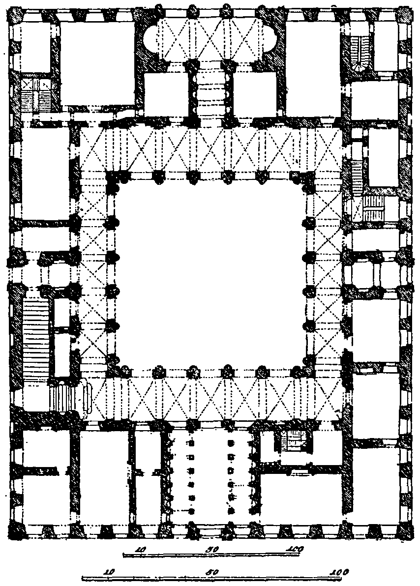 Detail (Figure 28) from page 115 of Palustre’s L’Architecture de la Renaissance (1892): floor plan of Palazzo Farnese (Rome)